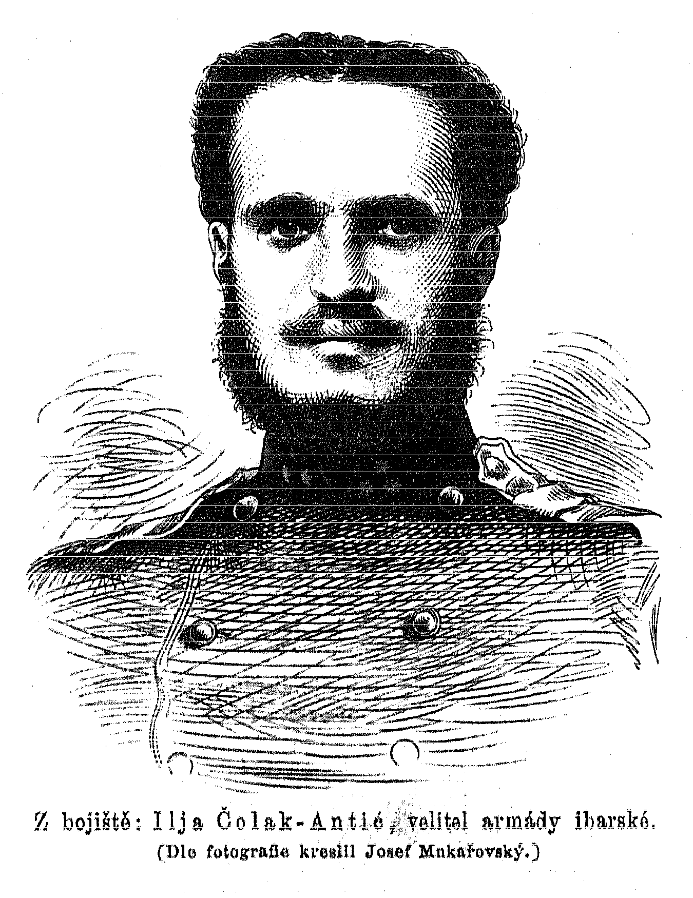 Portrait of Ilija K. Čolak-Antić (1836 - 1894; see Čolak-Antić family), a Serbian military comander during a war against Turkey.